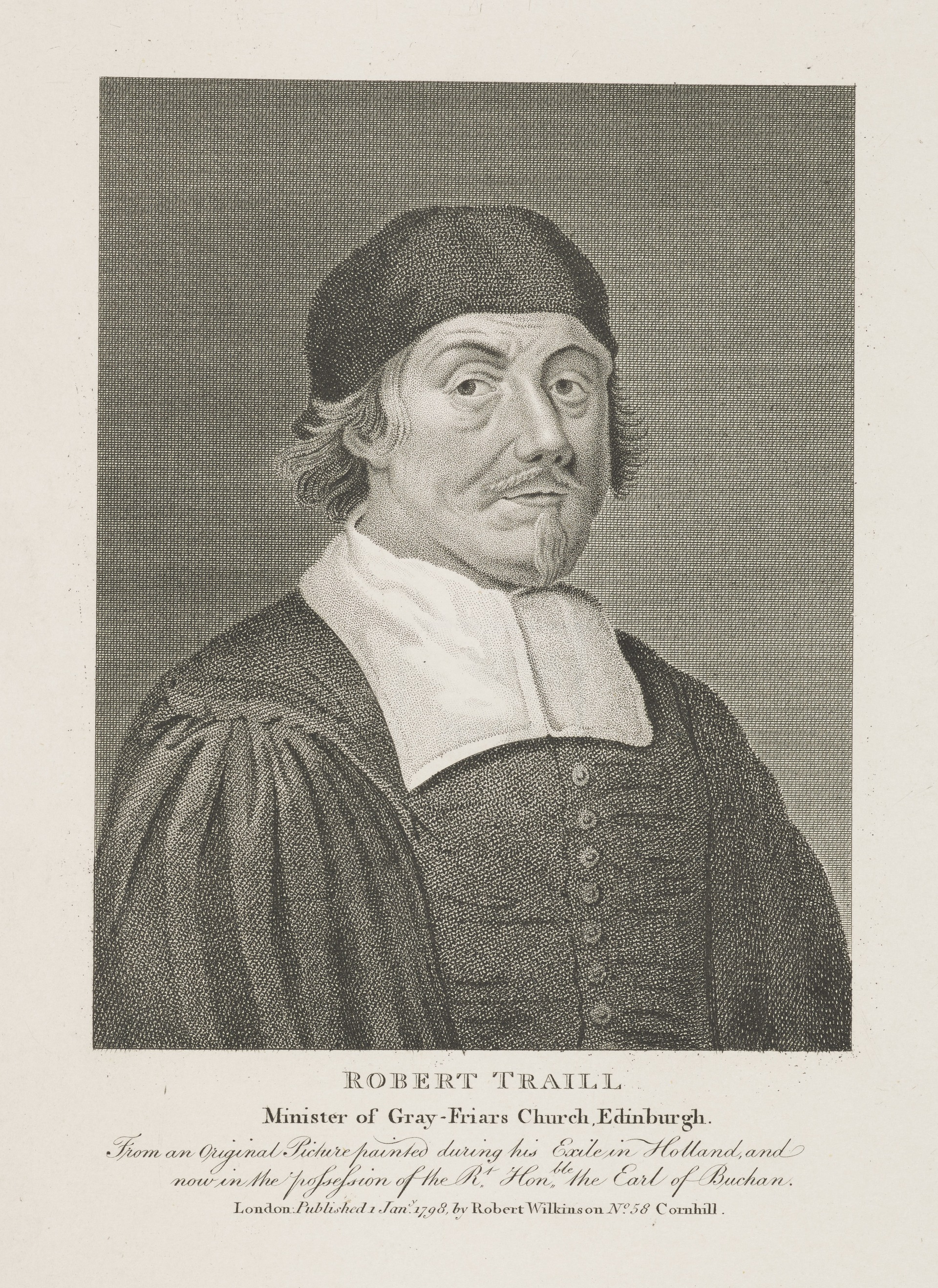 Robert Traill, 1603 - 1678. Covenanting Minister of Edinburgh, prisoner on the Bass Rock, from the National Galleries of Scotland